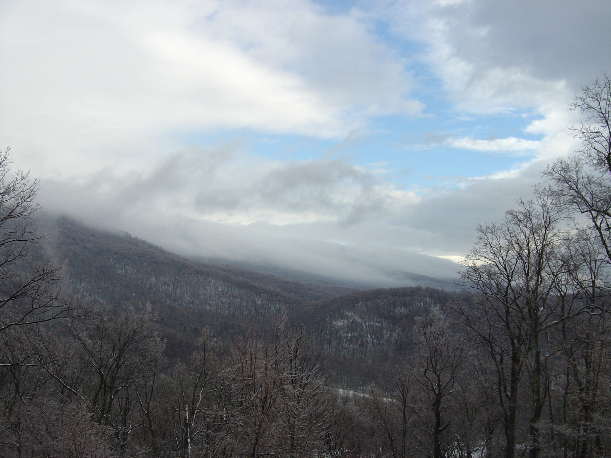 Photo of the Shenandoah National Park in Winter. The photo was taken from Pignut Mountain and captures the valley where Keyser Run is located. The low elevation in the picture is roughly the beginning of the Little Devil's Stairs trail.